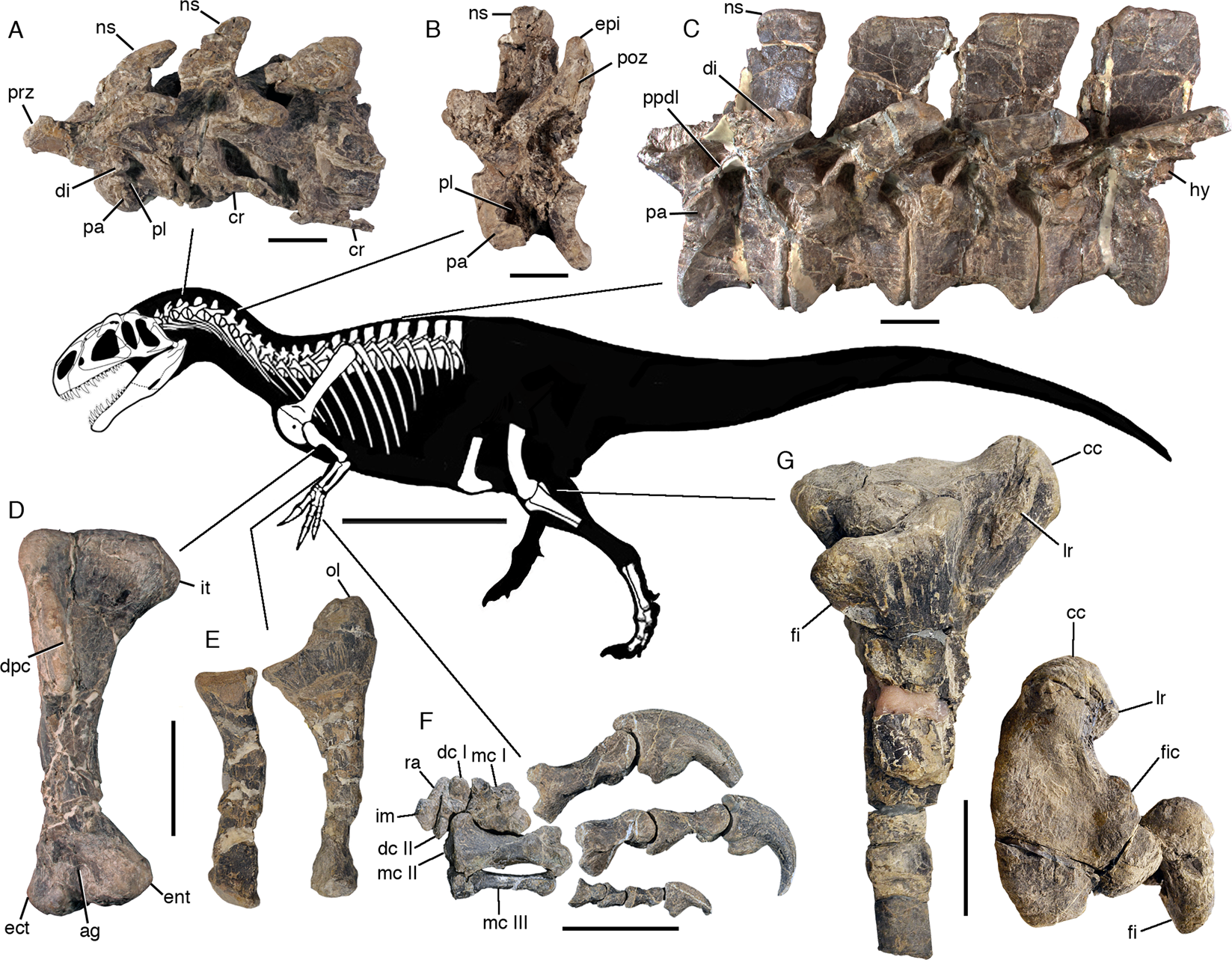 Skeletal reconstruction and postcranial anatomy of Asfaltovenator vialidadi, MPEF PV 3440. Centre: body outline with preserved elements indicated. (A) articulated cervical vertebrae three to five. (B) cervical vertebra 7. (C) articulated dorsal vertebrae four to seven (better preserved right side, reversed). (D) right humerus in anterior view. (E) right radius and ulna, medial view. (F) right manus, metacarpus in dorsal and digits in lateral view. (G) articulated proximal ends of right tibia and fibula in lateral and proximal views. Abbreviations: ag, anterior groove; cc, cnemial crest; cr, cervical rib; dc, distal carpal; di, diapophysis; dpc, deltpectoral crest; ec, ectepicondyle; ent, entepicondyle; epi, epipophysis; fi, fibula; fic, fibular condyle; hy, hyposphene; im, intermedium; it, internal tuberosity; lr, lateral ridge; mc, metacarpal; ns, neural spine; ol, olecranon; pa, parapophysis; pl, pleurocoel; poz, postzygapophysis; ppdl, paradiapophyseal lamina; prz, prezygapophysis; ra, radial. Scale bars are 100 cm (skeletal reconstruction), 5 cm (A–C) and 10 cm (D–G).